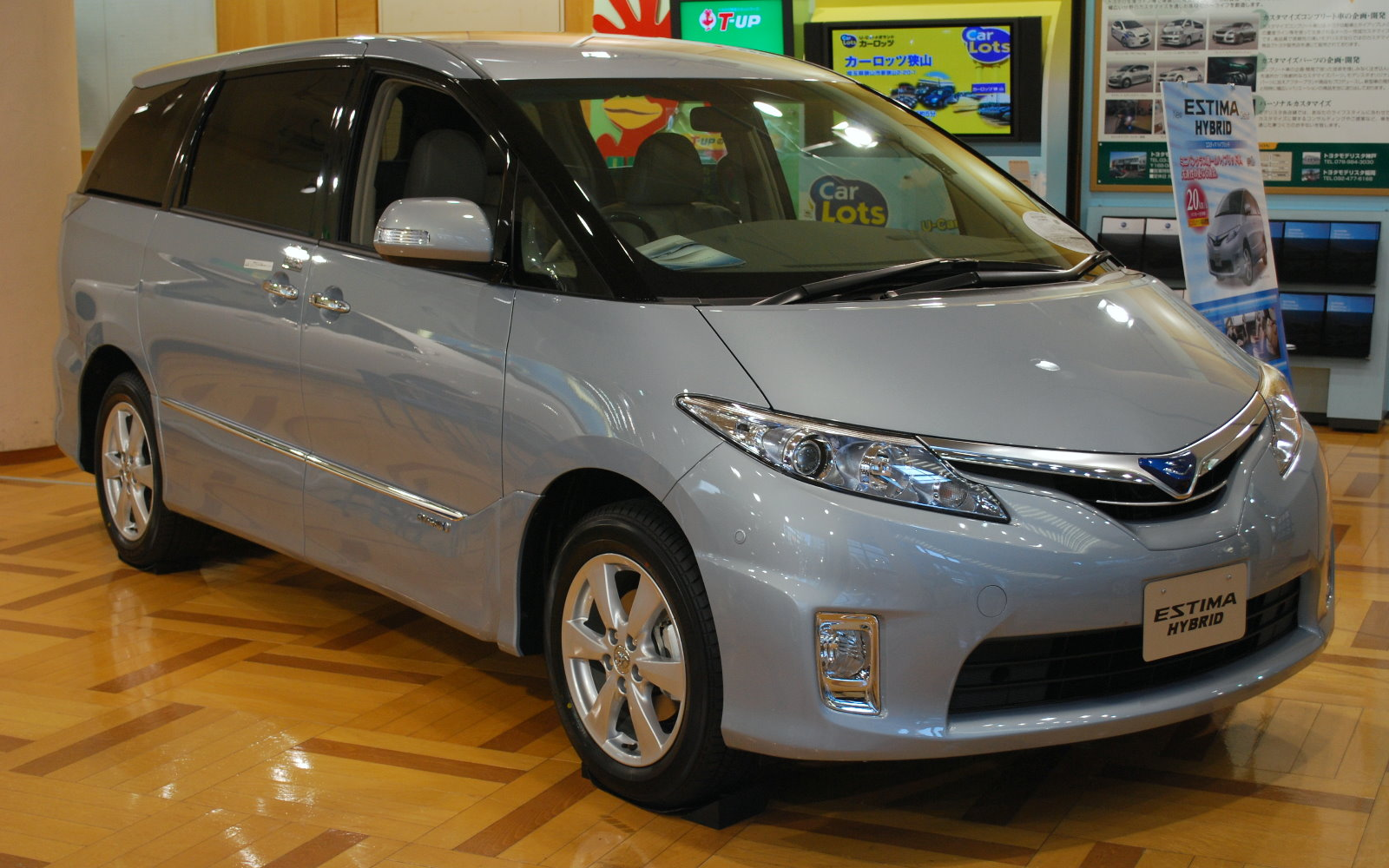 3rd-generation Toyota Estima Hybrid (2008/12 -)